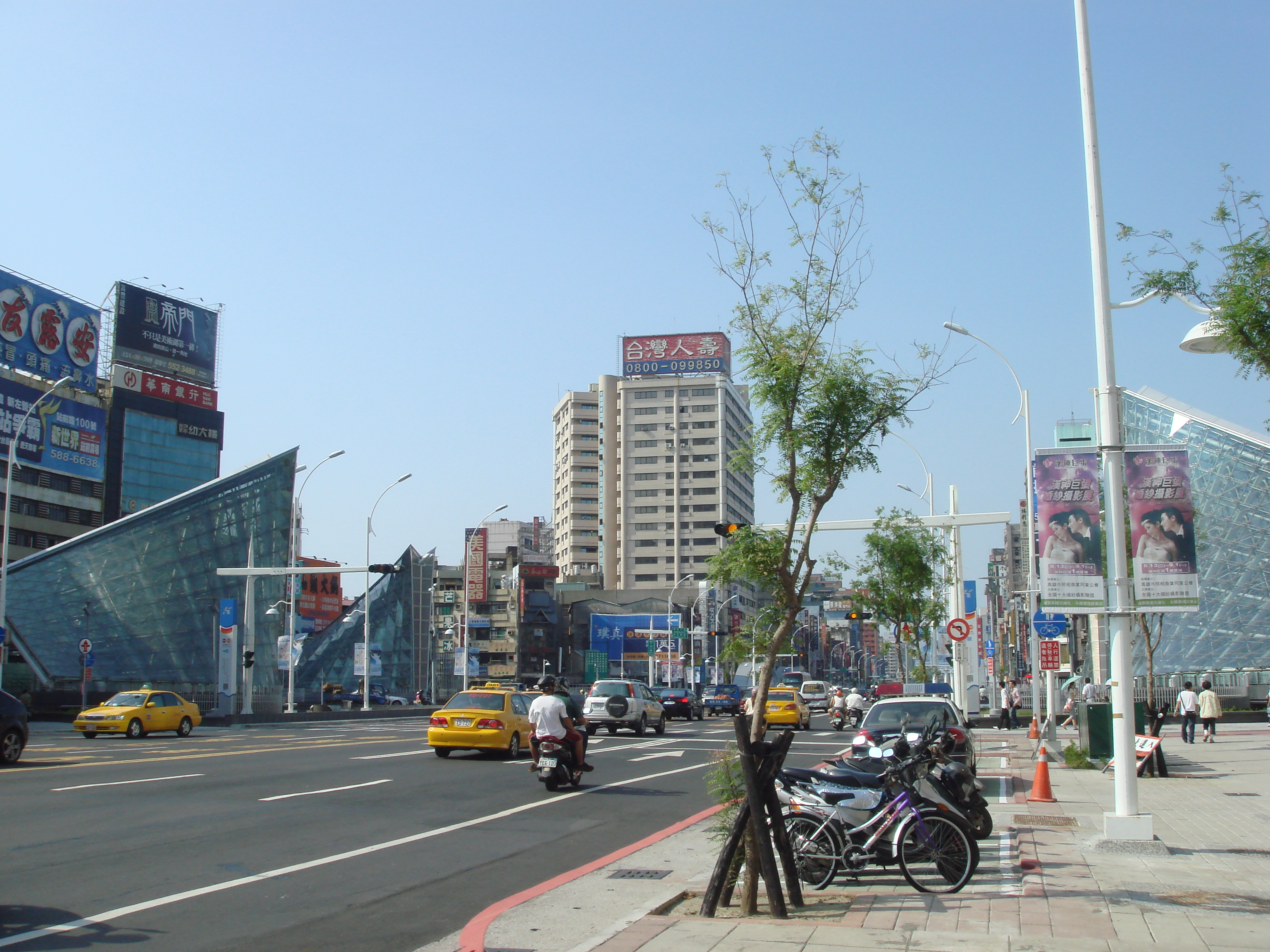 高雄捷運美麗島站 Kaohsiung MRT Formosa Boulevard Station